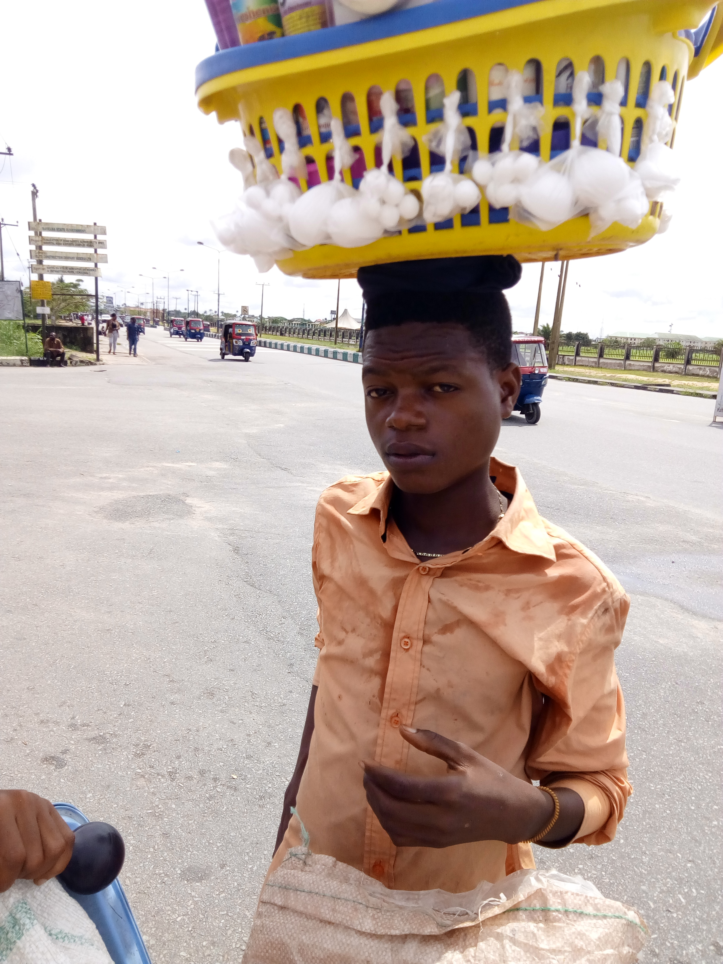 A typical business in bayelsa state of Nigeria. Its know to the people of bayelsa as camfor. It's a local scent in form of a white solid stone. This is an image of "African people at work" from Nigeria